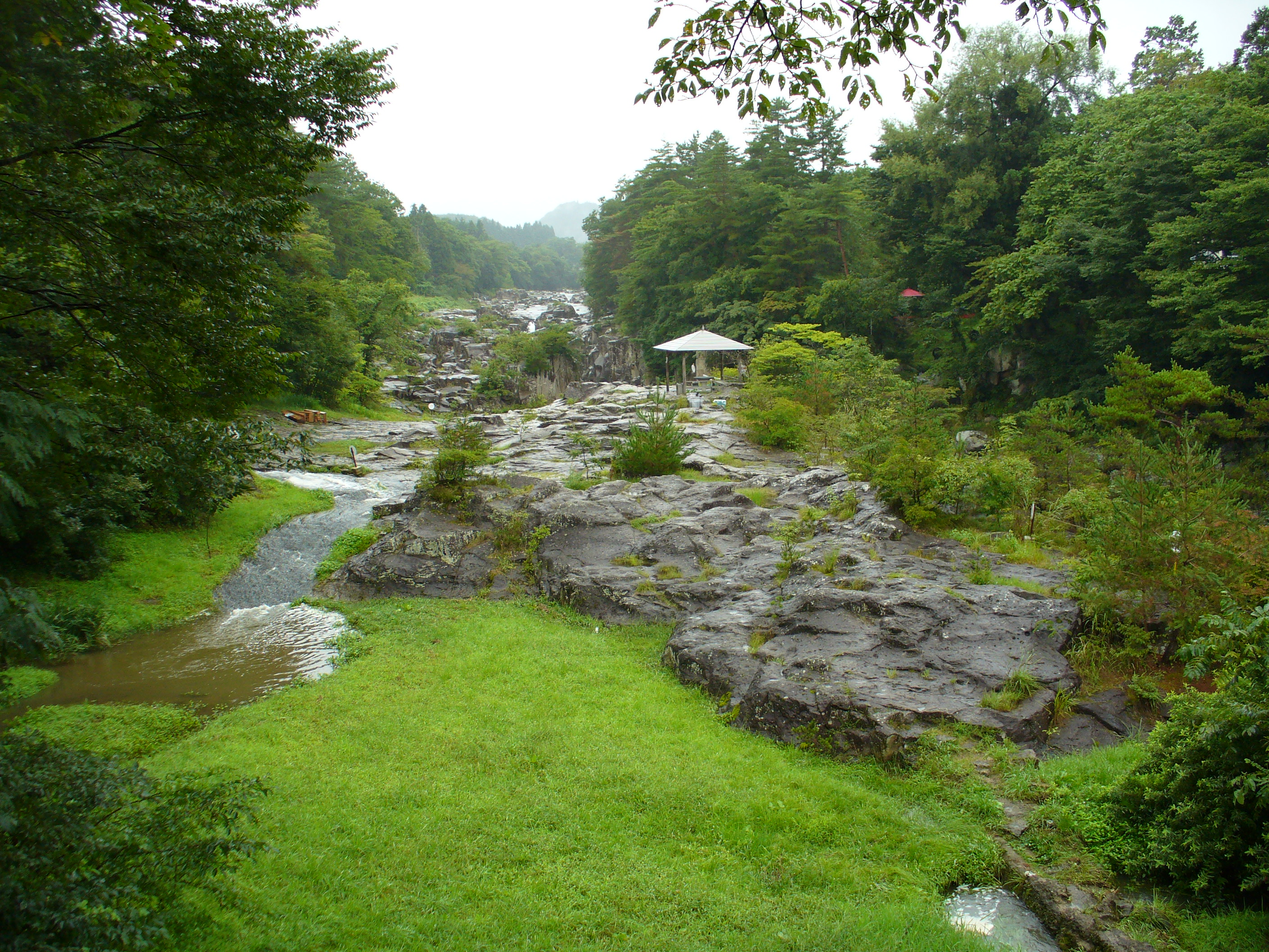 Genbi-kei in Ichinoseki, Iwate